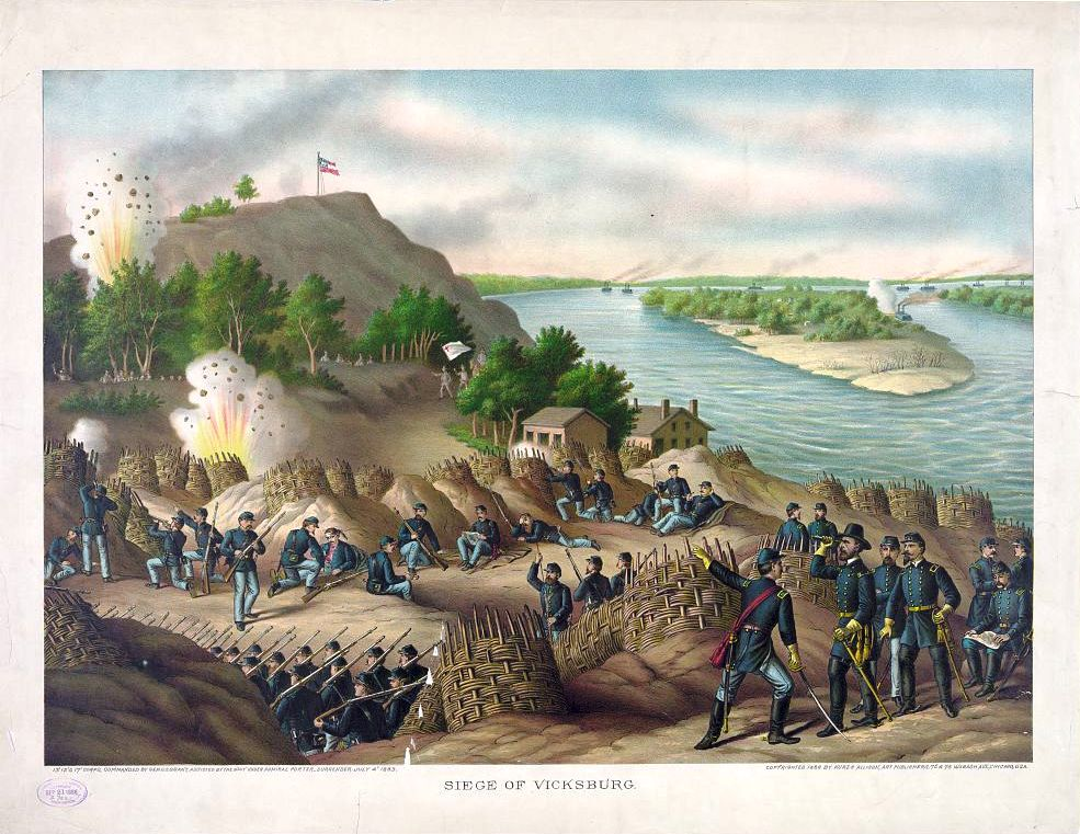 Siege of Vicksburg—XIII, XV, & XVII Corps, Commanded by Gen. Ulysses S. Grant, assisted by the Navy under Admiral Porter—Surrender, July 4, 1863.